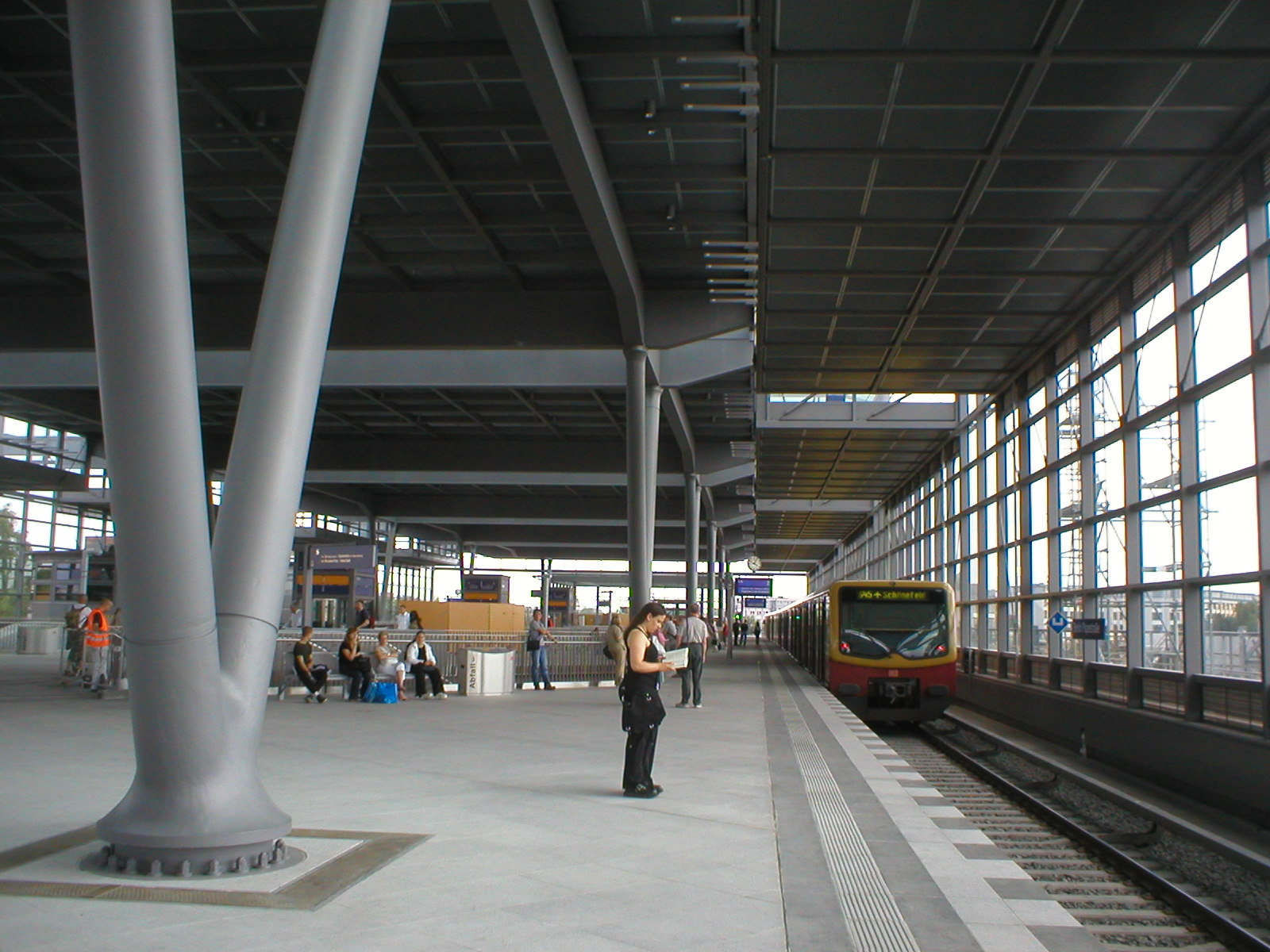 Hall of the Berlin S-Bahnsstation Südkreuz (formerly Papestraße).